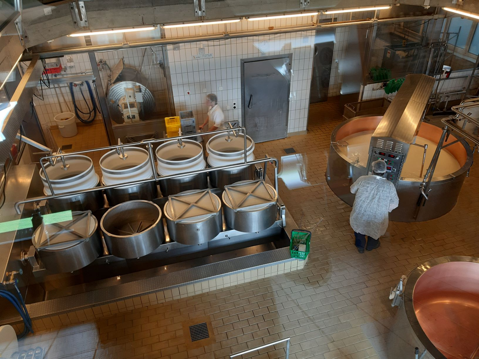 Affoltern, Switzerland, production of Emmentaler cheese